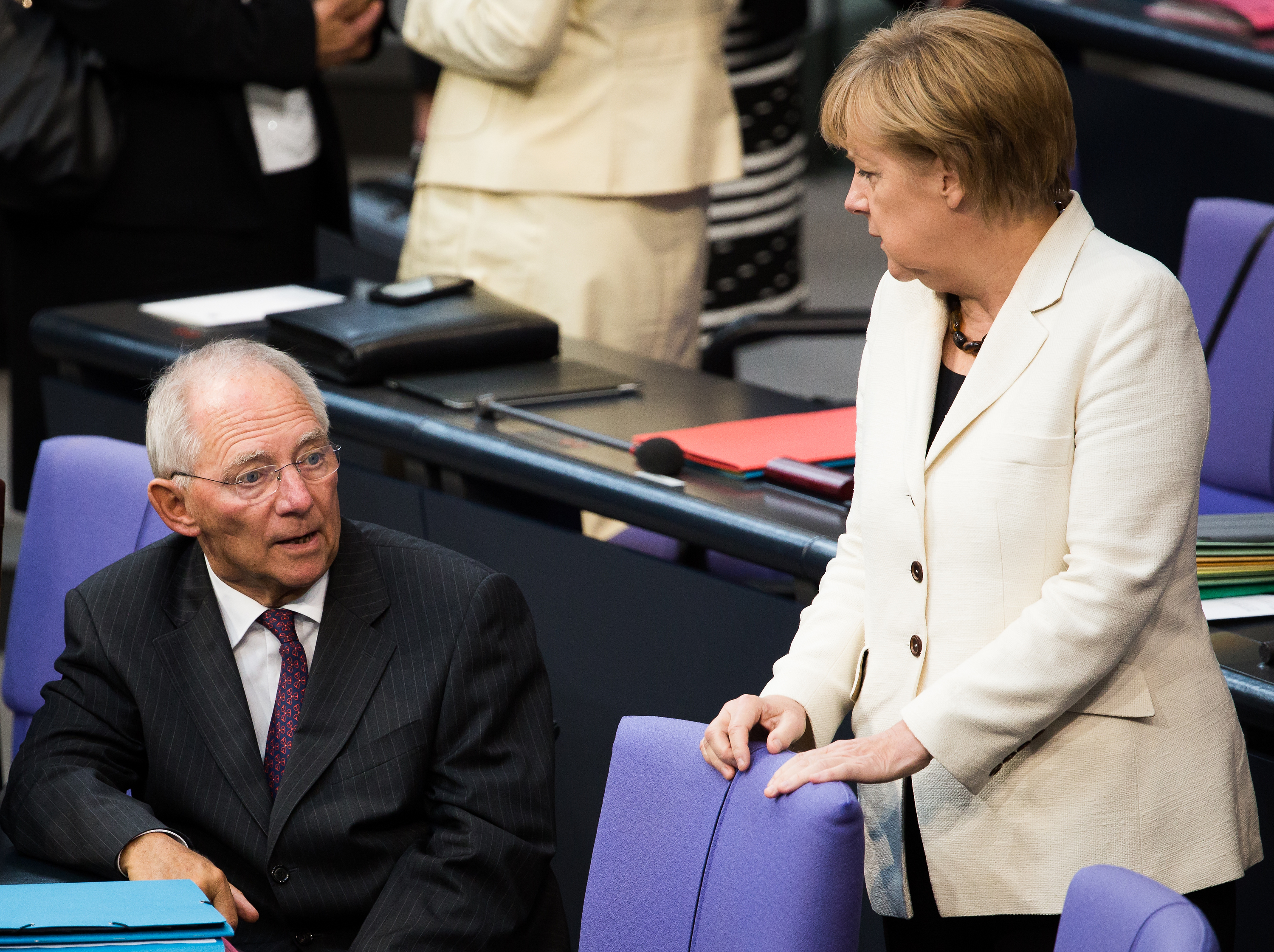 Picture taken during Wikipedia Bundestag project 2014. Angela Merkel, Wolfgang Schäuble.